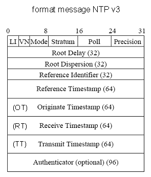 NTP v3 message structure